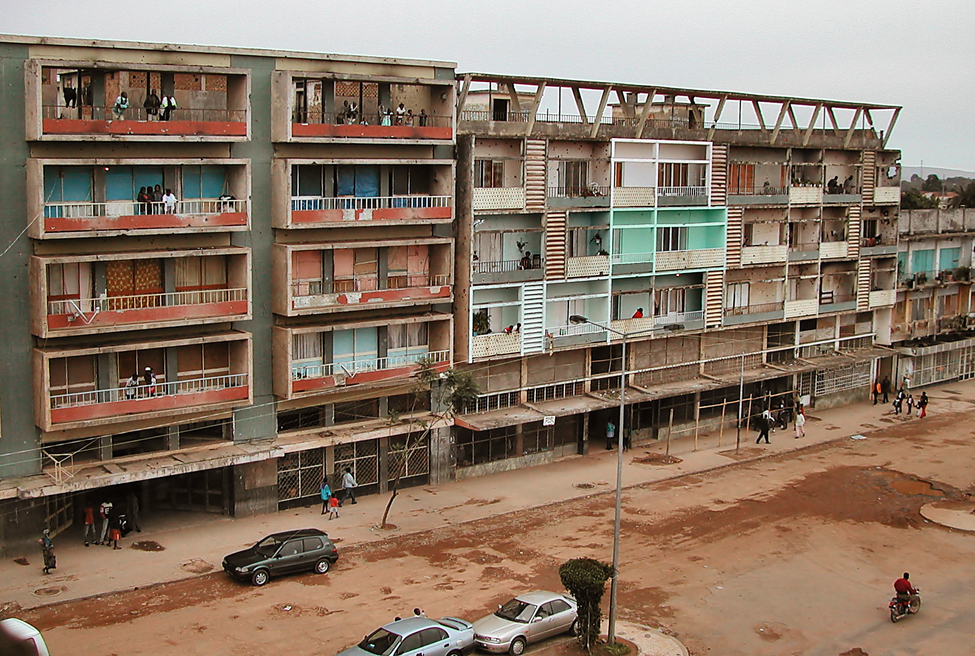 Buildings at Rua Cinco, Huambo, Angola. Official name of the street is "Av. 5 de Outubro".